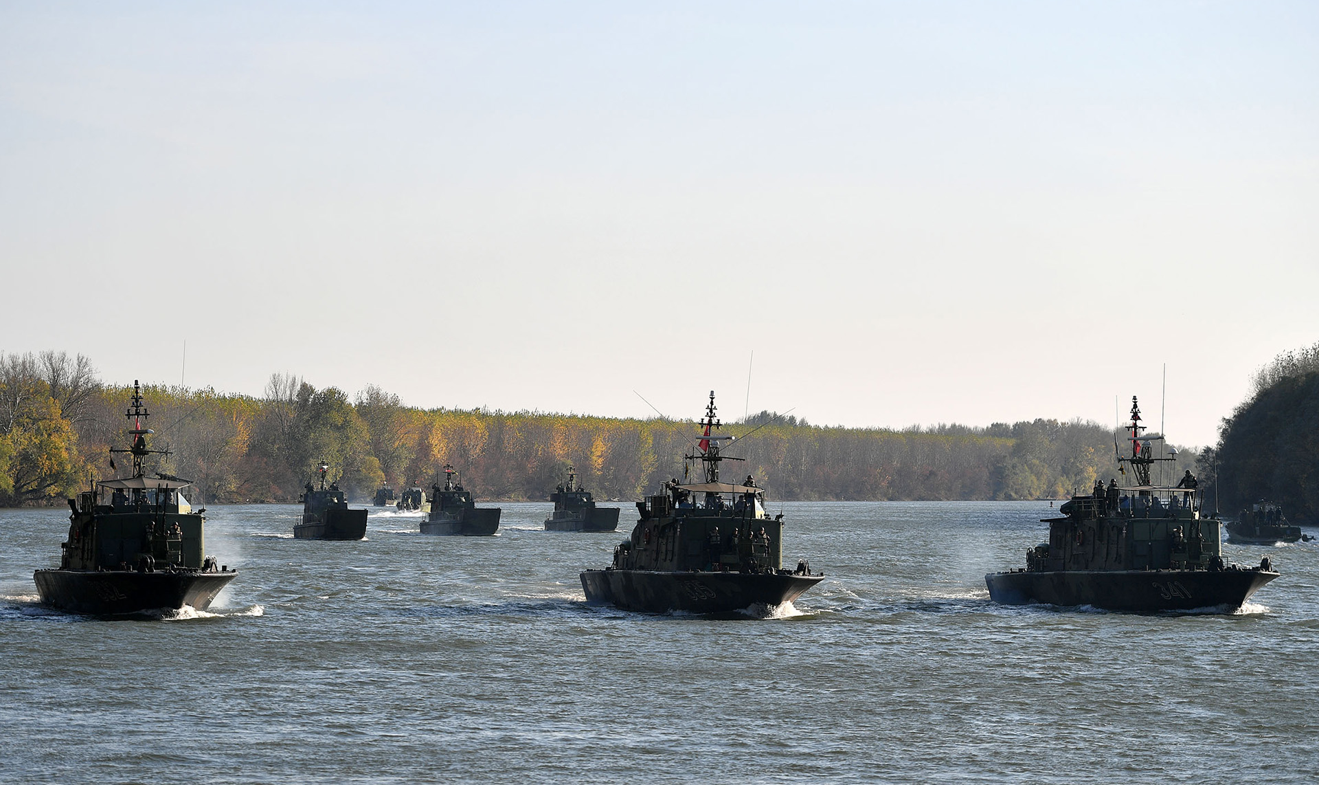 Military exercise in Titel